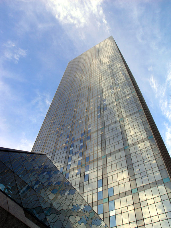 Renaissance Tower in downtown Dallas - It has the headquarters of Blockbuster Inc.